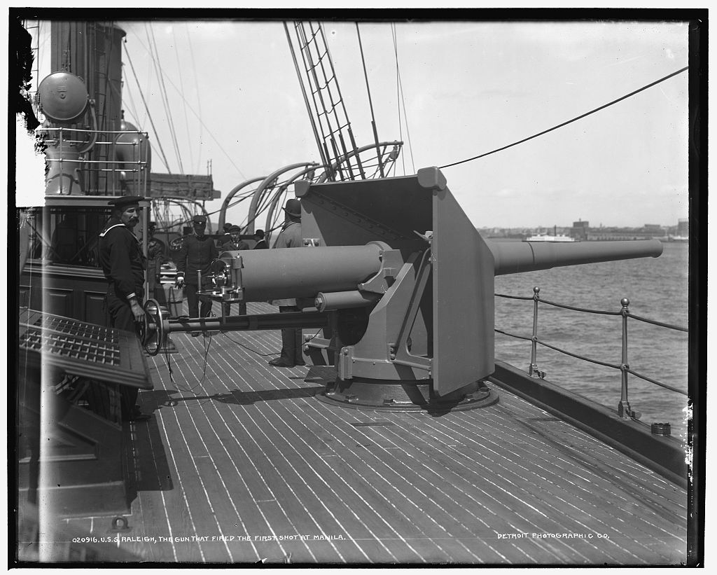 "U.S.S. Raleigh, the gun that fired the first shot at Manila".